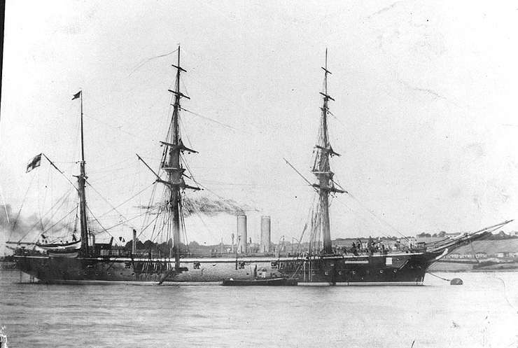 “Kreuzerkorvette” SMS Olga (1880–1908), German Imperial Navy, retouched to emphasize flags and smoke